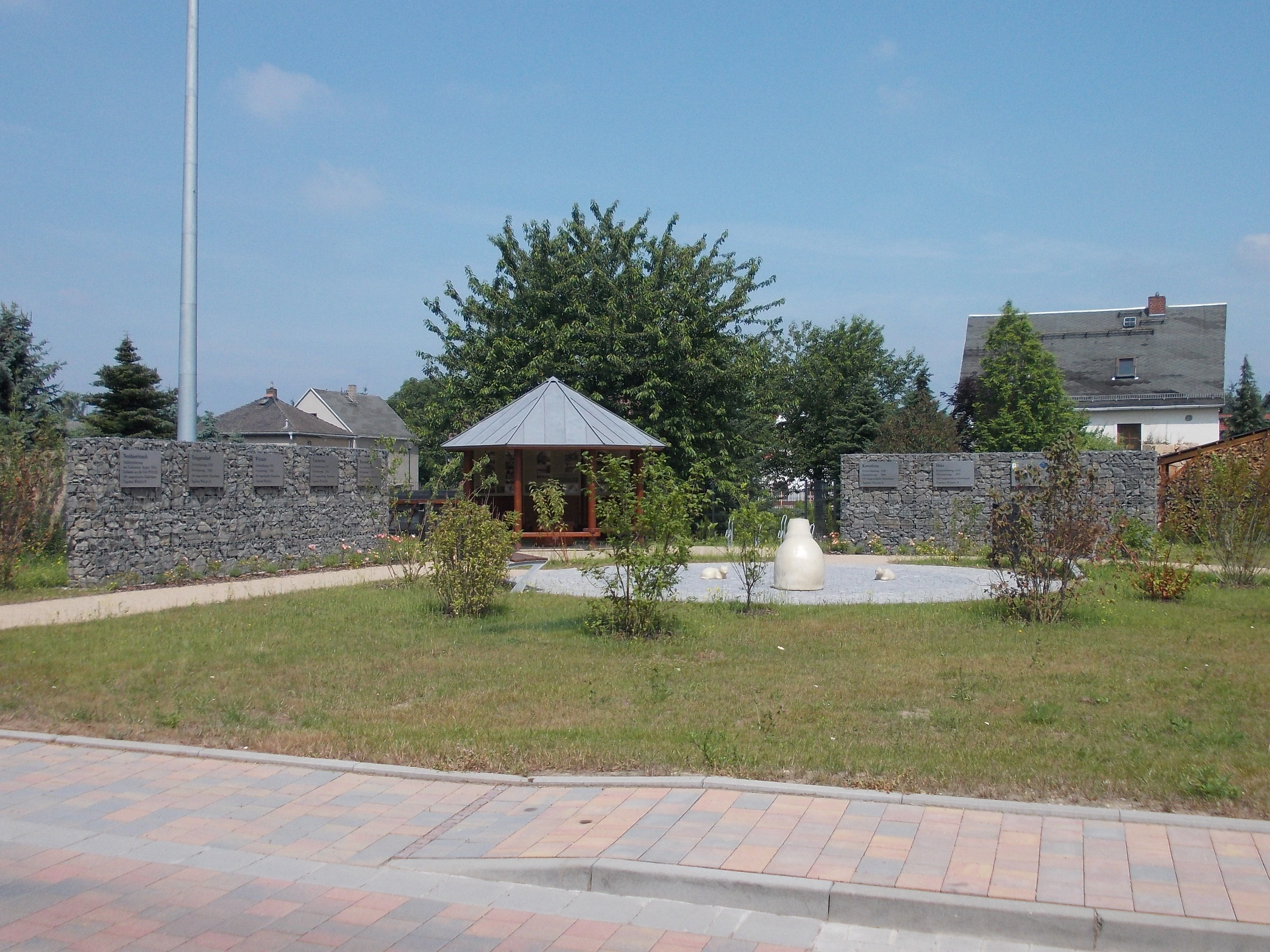 Helene Square in Grosszössen (Neukieritzsch, Leipzig district, Saxony) with memorial plaques to the villages destroyed by the Witznitz I and Witznitz II opencast mines.